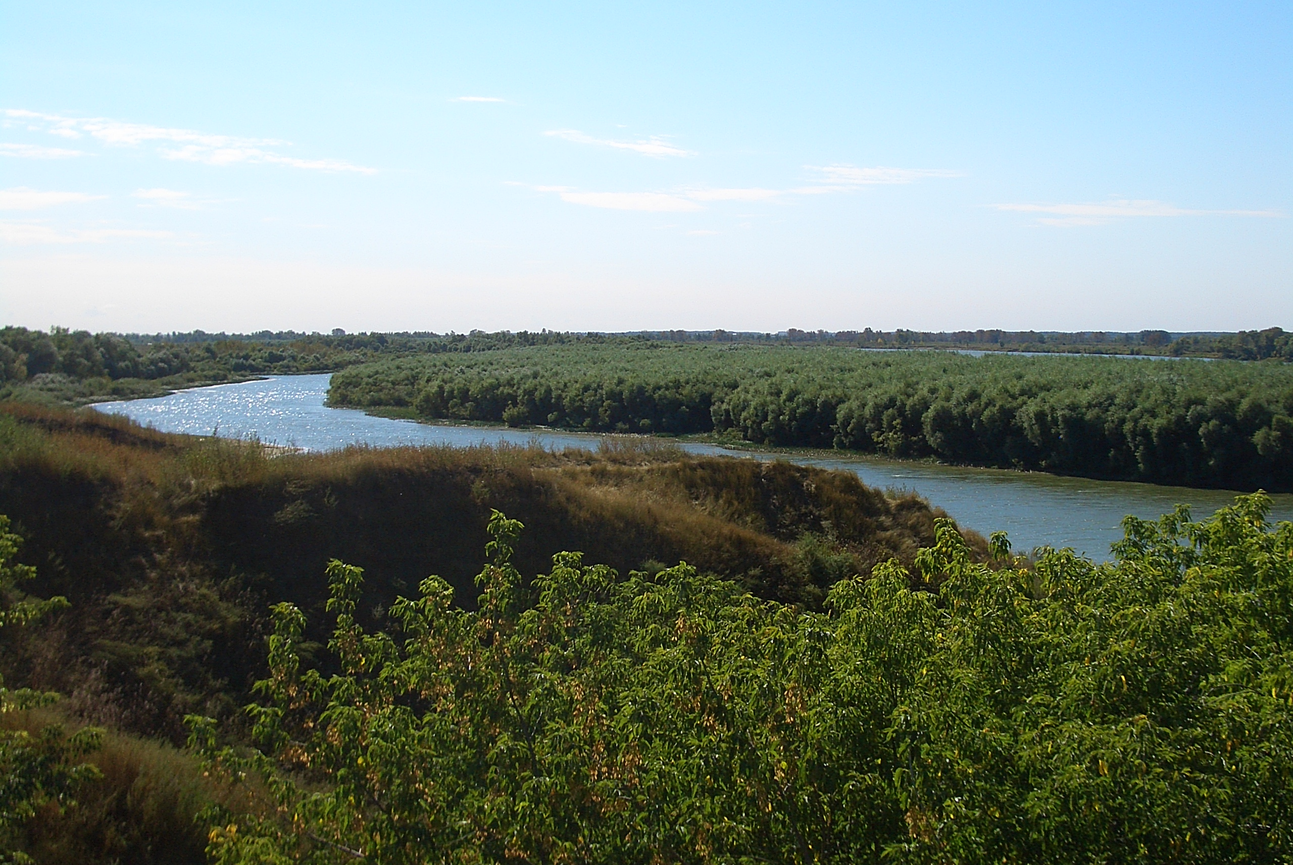 At the Irtysh at Cherlak, Omsk Oblast (Russia).